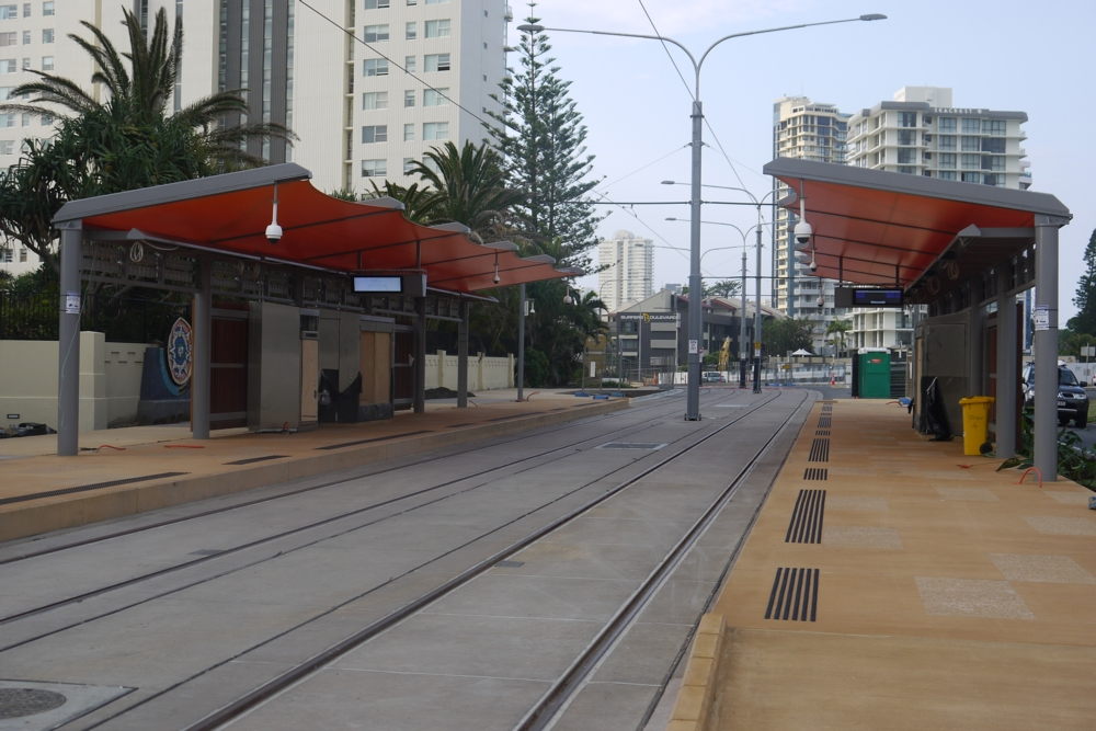 Surfers Paradise North Station on Surfers Paradise Boulevard near Staghorn Avenue